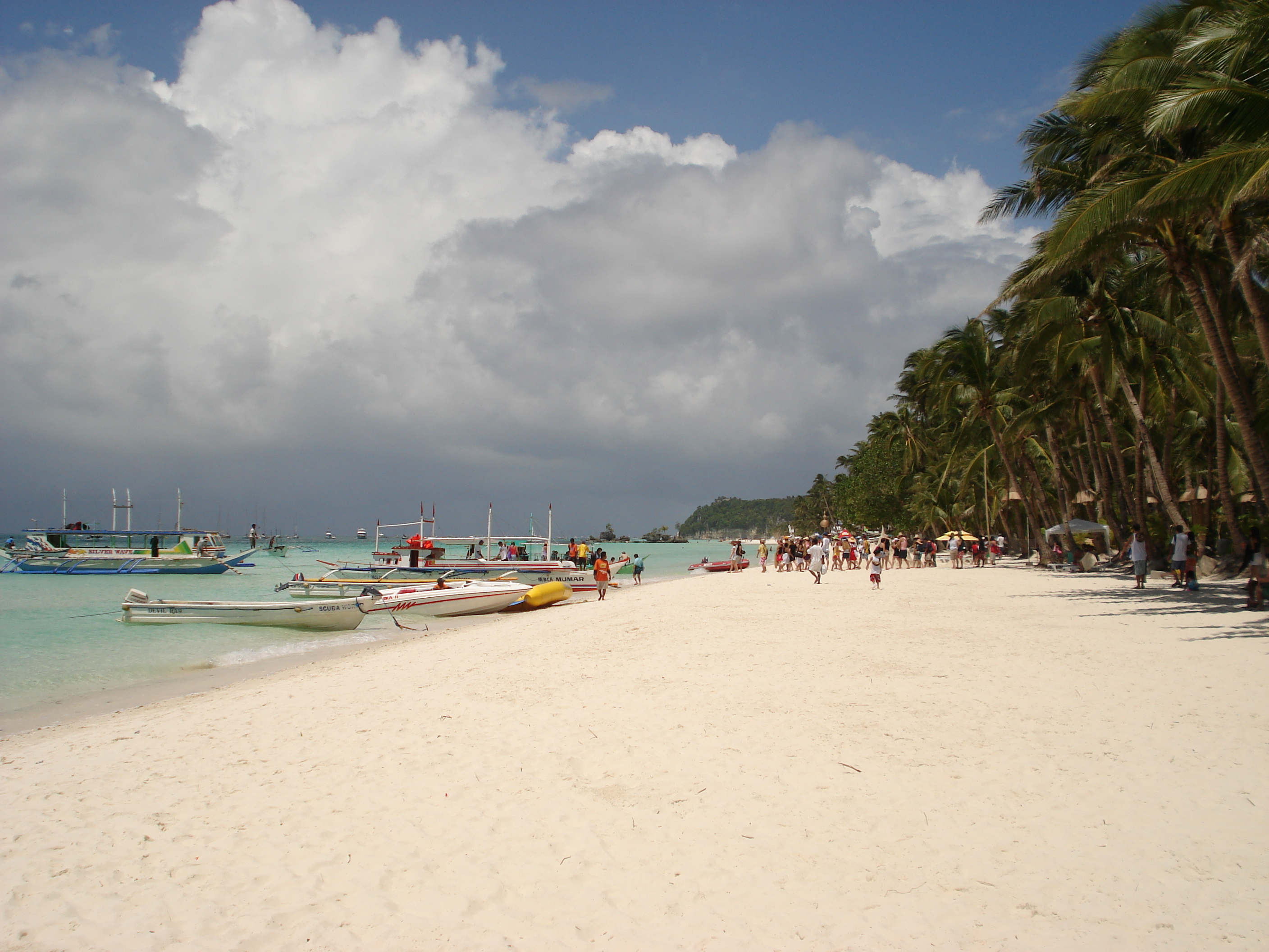 White Beach, Boracay